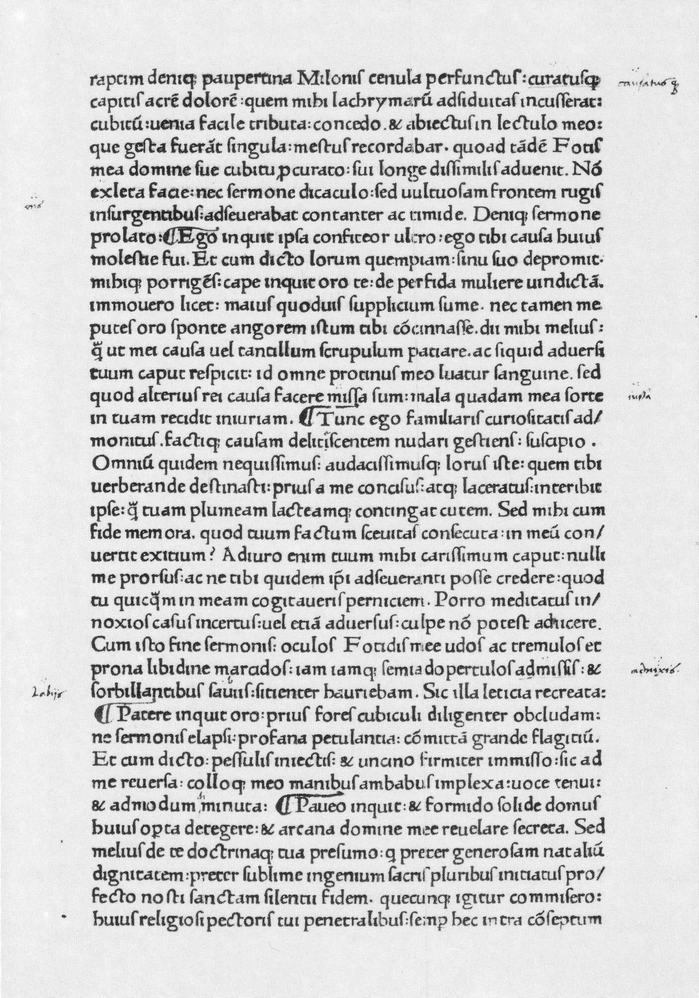 San Marino (California), Huntington Library, editio princeps of Apuleius, Metamorphoses 3.13(71,1)–3.15(73,5). The 11th line from the bottom shows a two-time intervention of a corrector.